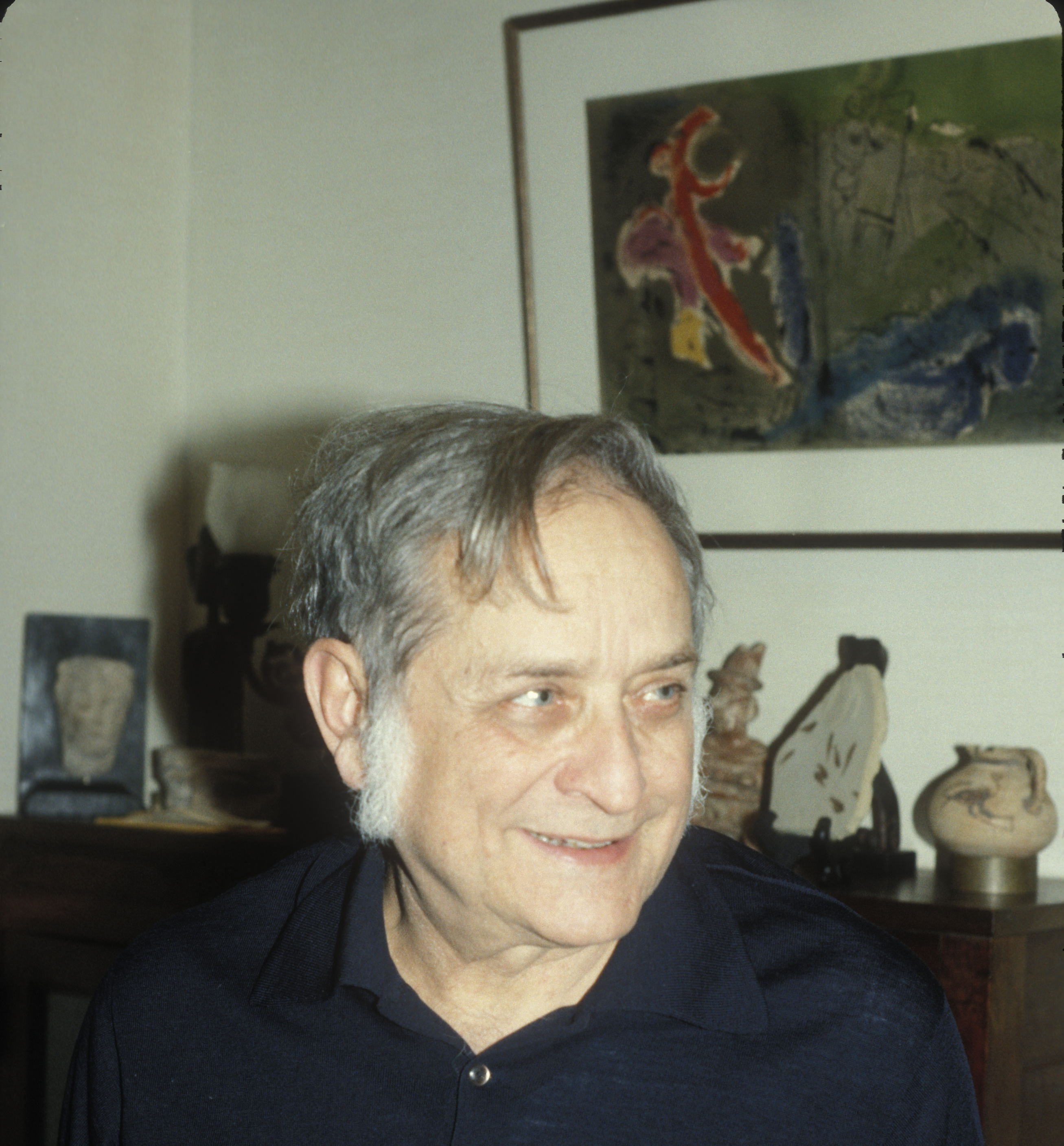 Maurice Sanford Fox at home.